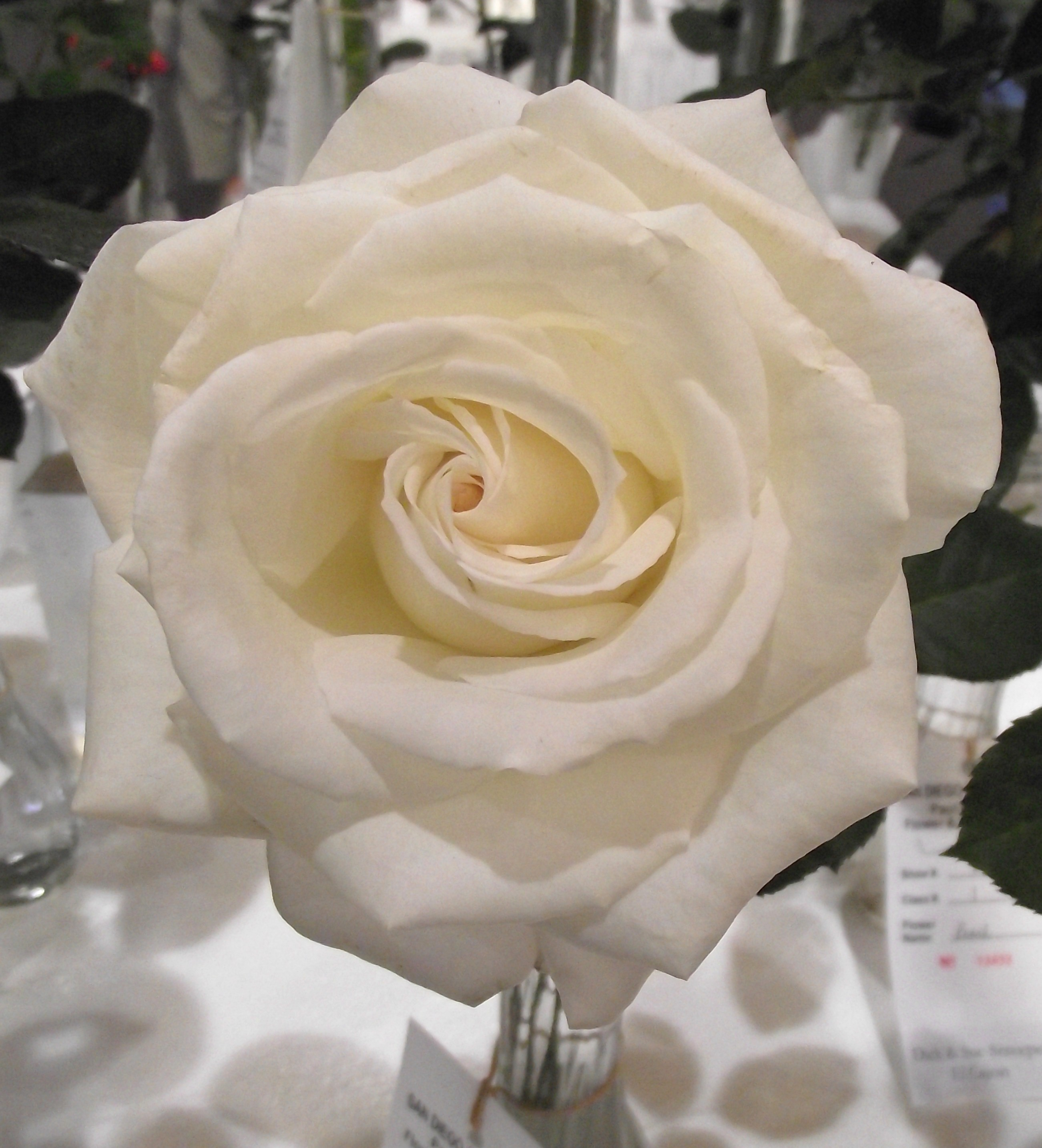 Rosa 'Pope John Paul II' at the San Diego County Fair, California, USA. Identified by exhibitor's sign.